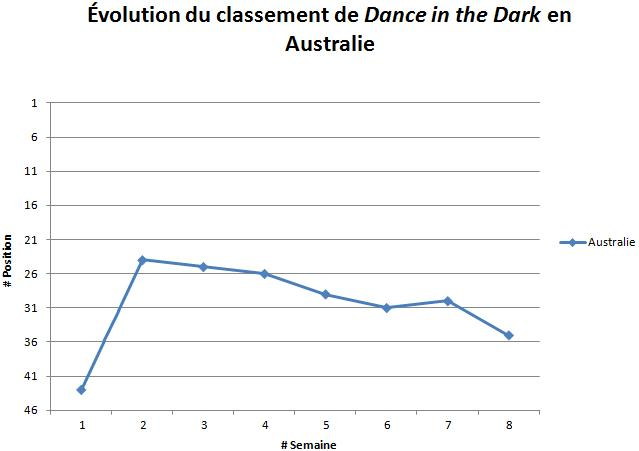 Evolution of Dance in the Dark in Australia.